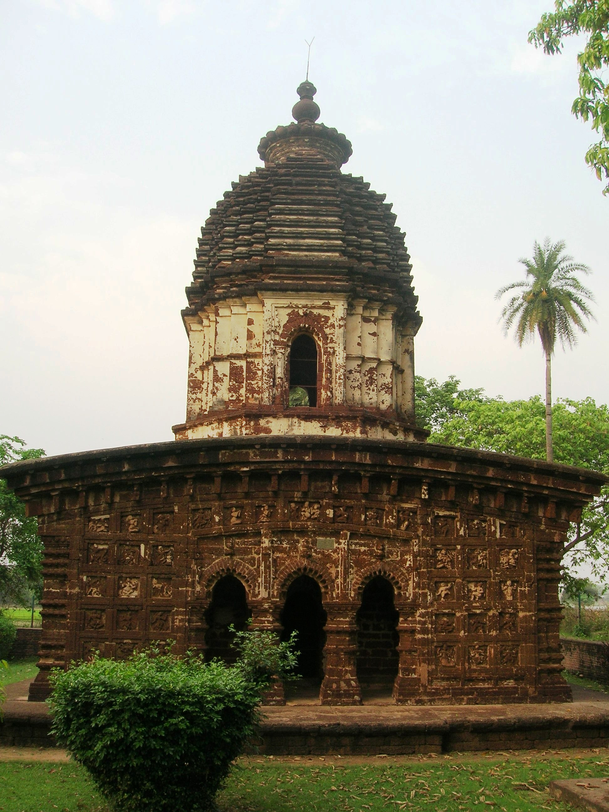 Kalachand Temple (c. 1656), Bishnupur, Bankura dist., West Bengal, India.